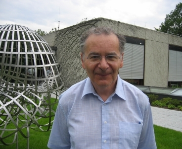 French mathematician Henri Cohen at Oberwolfach in 2007